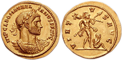 AURELIAN. 270-275 AD. Aureus (21mm, 4.70 g, 6h). Mediolanum (Milan) mint, 3rd emission, 271-272 AD. IMP C L DOM AVRELIANVS P F AVG, laureate and cuirassed bust right, wearing aegis V-IRTVS AVG, Mars advancing right, holding spear forward and trophy over left shoulder holding spear; at feet, bound captive seated right. RIC V 15 (Rome) and 182 (Siscia); MIR 47, 127p0 (8) = Calicó 4050 (this coin); cf. BN 424-435; cf. Cohen 269.